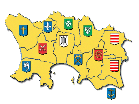 Coats of arms of the Jersey parishes